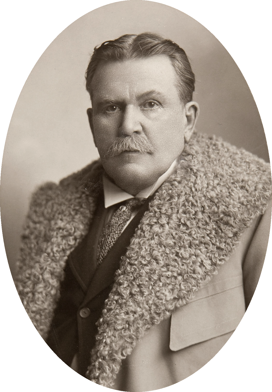 "Doc" Carver in a formal studio portrait later in life.